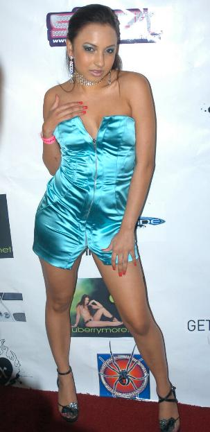 Veronique Vega at Forbidden City party on March 31, 2007